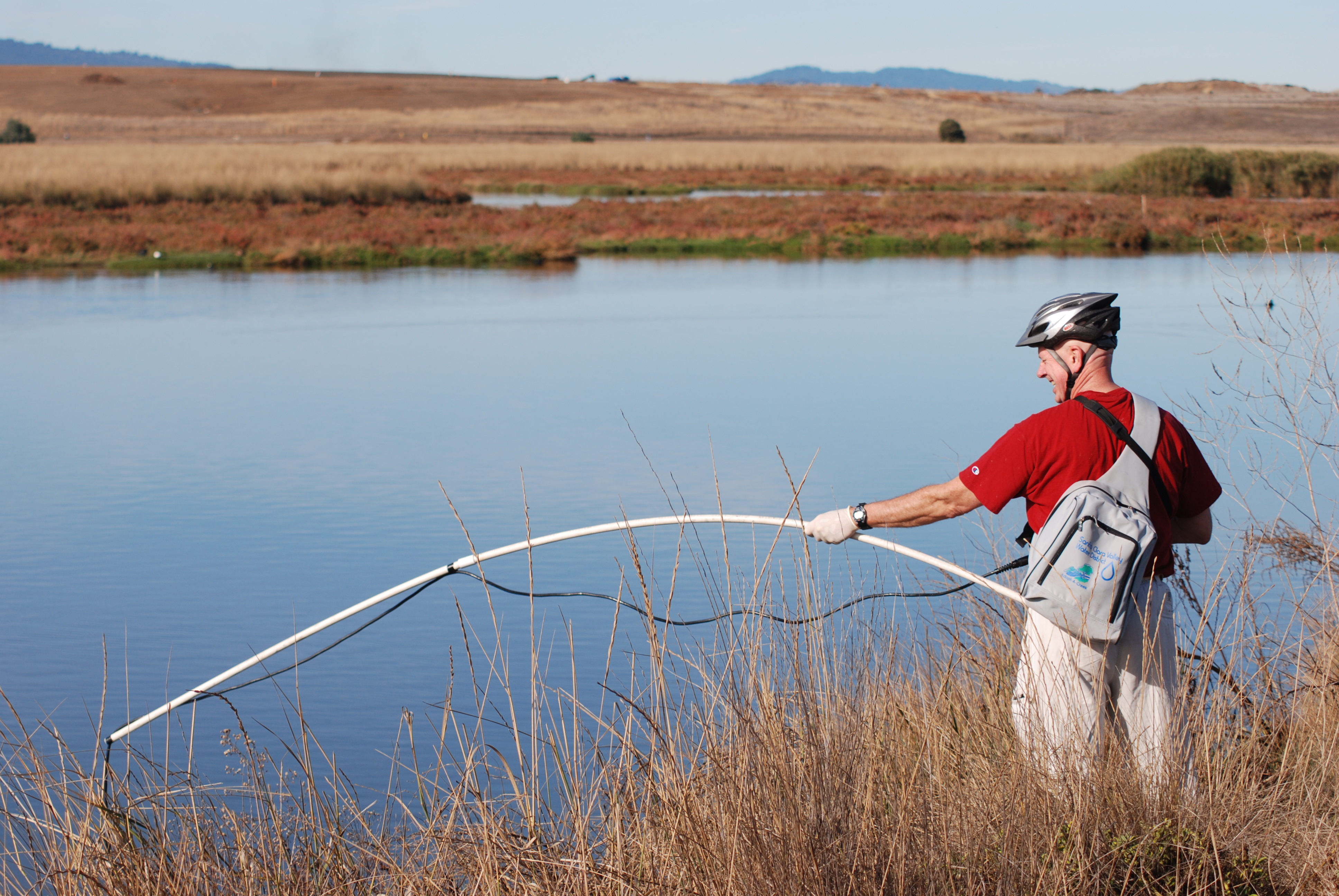 Photo of Jim McCarthy, Adobe Creek Streamkeeper, taking water samples to measure dissolved oxygen in Reach 1 of the creek in the Palo Alto Flood Basin.